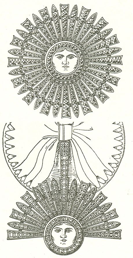 The Order of the Sun, Persia 1873, Ladies' Order